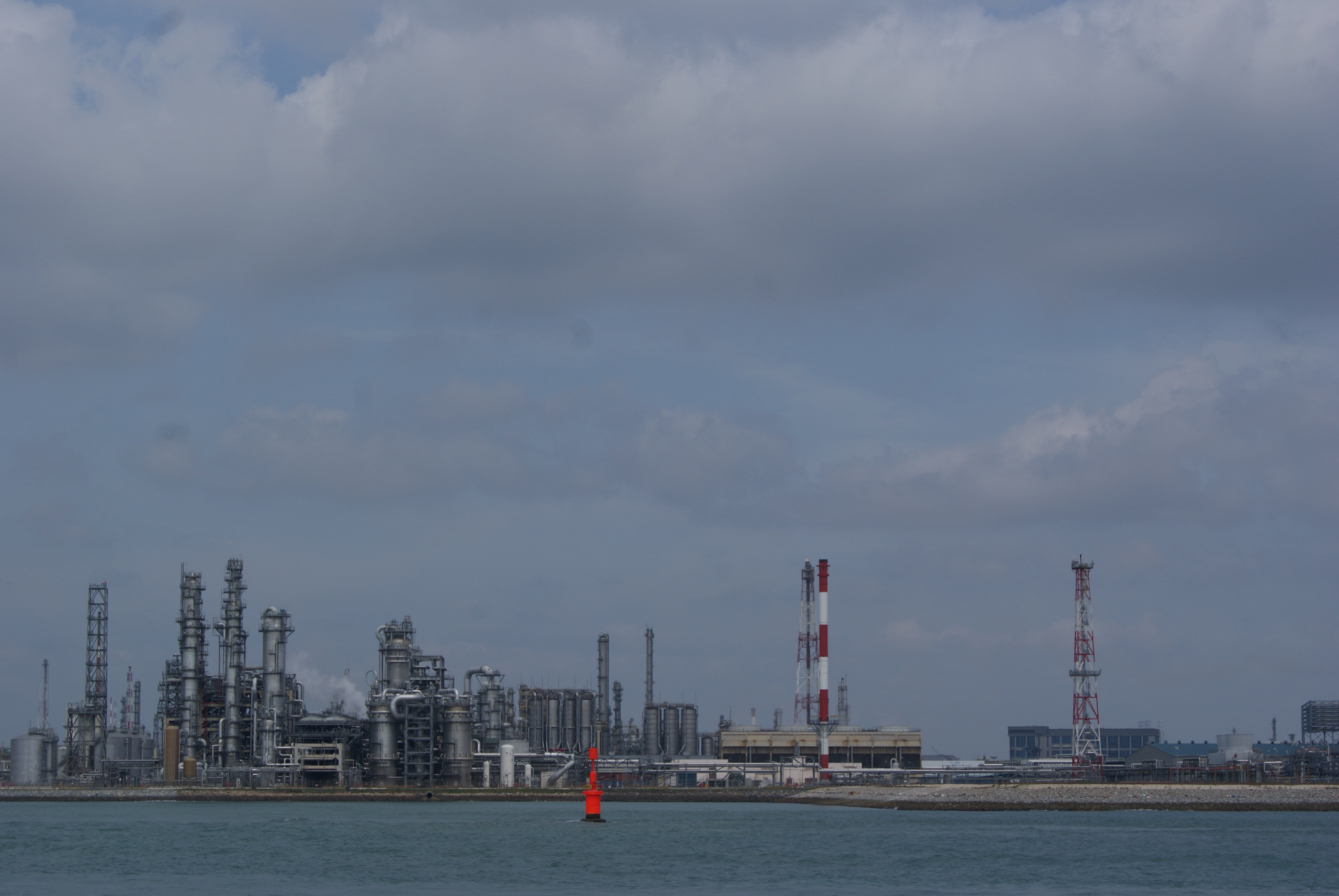 Jurong Island, Singapore, an artificial island located to the southwest of the main island of Singapore, off Jurong Industrial Estate. Formed by amalgamating a number of smaller islands through land reclamation, it is used by the petrochemical industry.